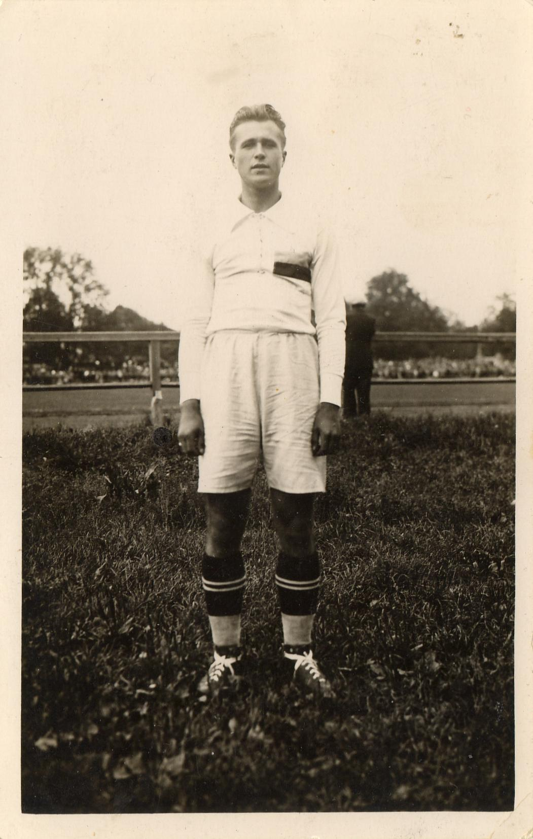 A. Neuman-Tarimäe